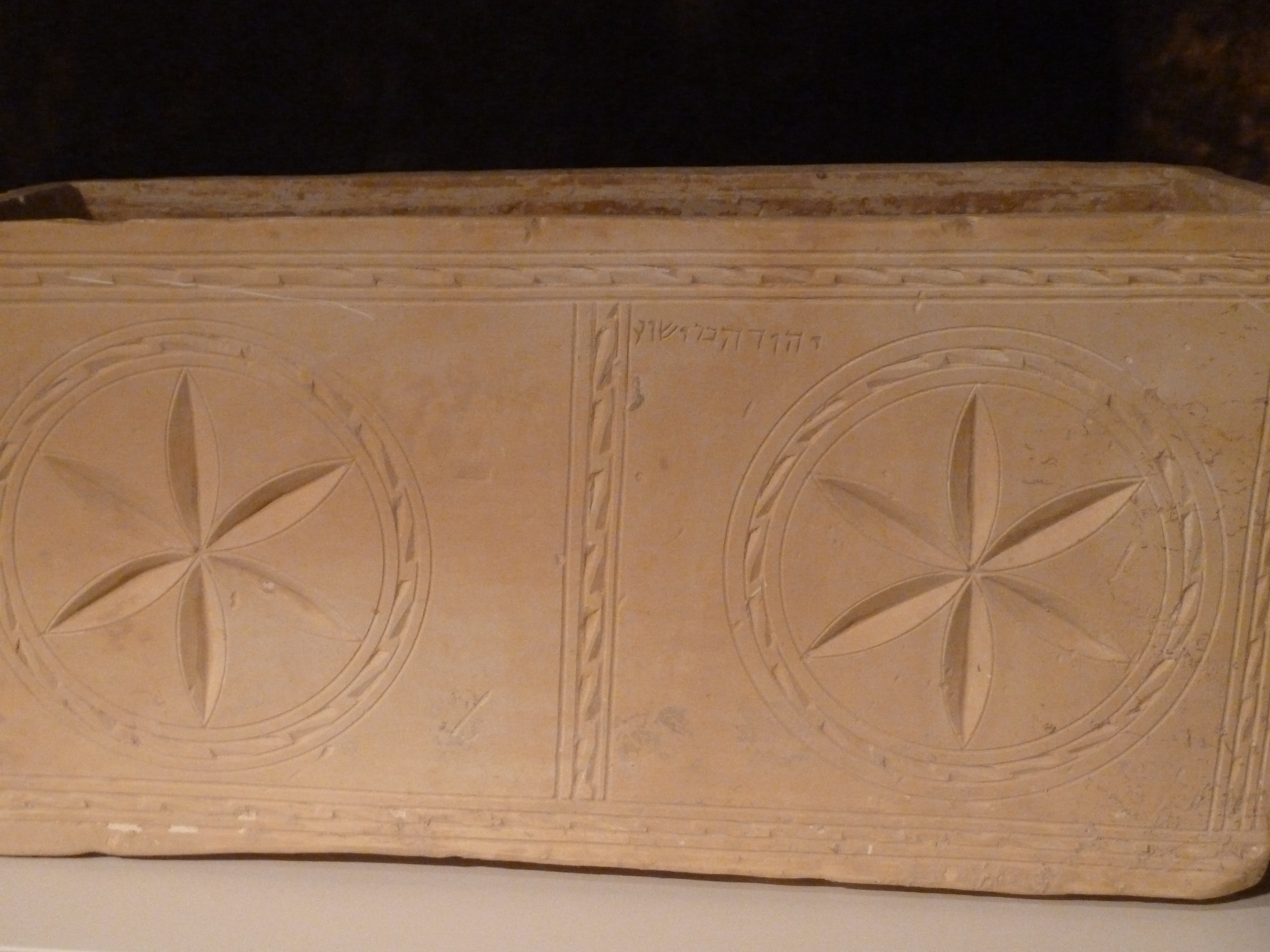 Ossuary of "Judah son of Jesus", found in Talpiyot in Jerusalem near the Ossuary of "Jesus son of Joseph". Ossuary from the 1st Century. The Israel Museum, jerusalem